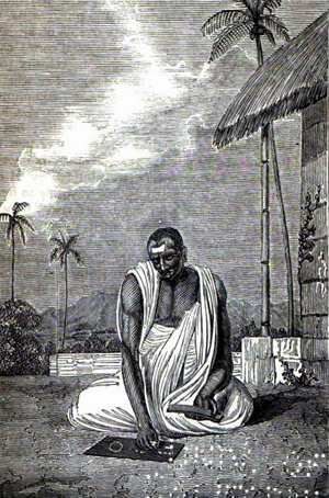 19th-century illustration of a Hindu astronomer. Original caption: "Dybuck, an astronomer, calculating an Eclipse." The illustration, as well as the term dybuck, is derived from an etching with the title "Daybouk ou astronome hindou" by Frans Balthazar Solvyns (between 1791 and 1803), published in his Les Hindous (1808)[1][2][3] The original caption by Solvyns describes the specific individual he depicted: "He who is the subject of the plate is sitting before his house, calculating an eclipse. Before him are his tablets, and in his hand the chalk with which he writes on a blackened board. He was often consulted by the learned, even from Europe, and expressed himself with great accuracy and precision' (Note that the filename is mistaken, this image was never meant to represent Brahmagupta, nor does it show any "ancient" astronomer; it was rather drawn from life in the 1790s and shows a then-contemporary traditional Hindu astronomer)